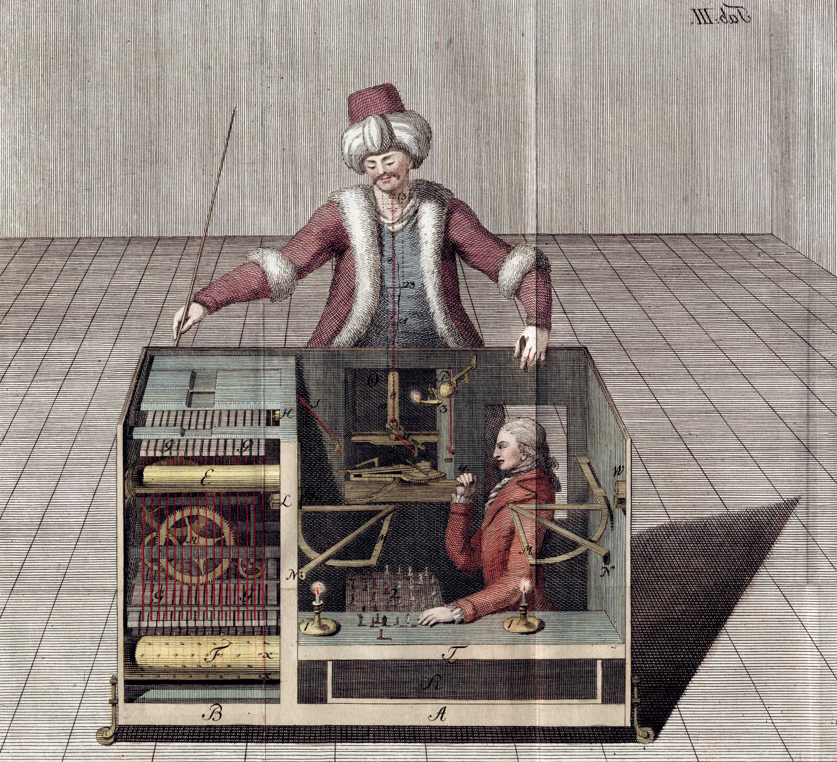 From book that tried to explain the illusions behind the Kempelen chess playing automaton (known as The Turk) after making reconstructions of the device.